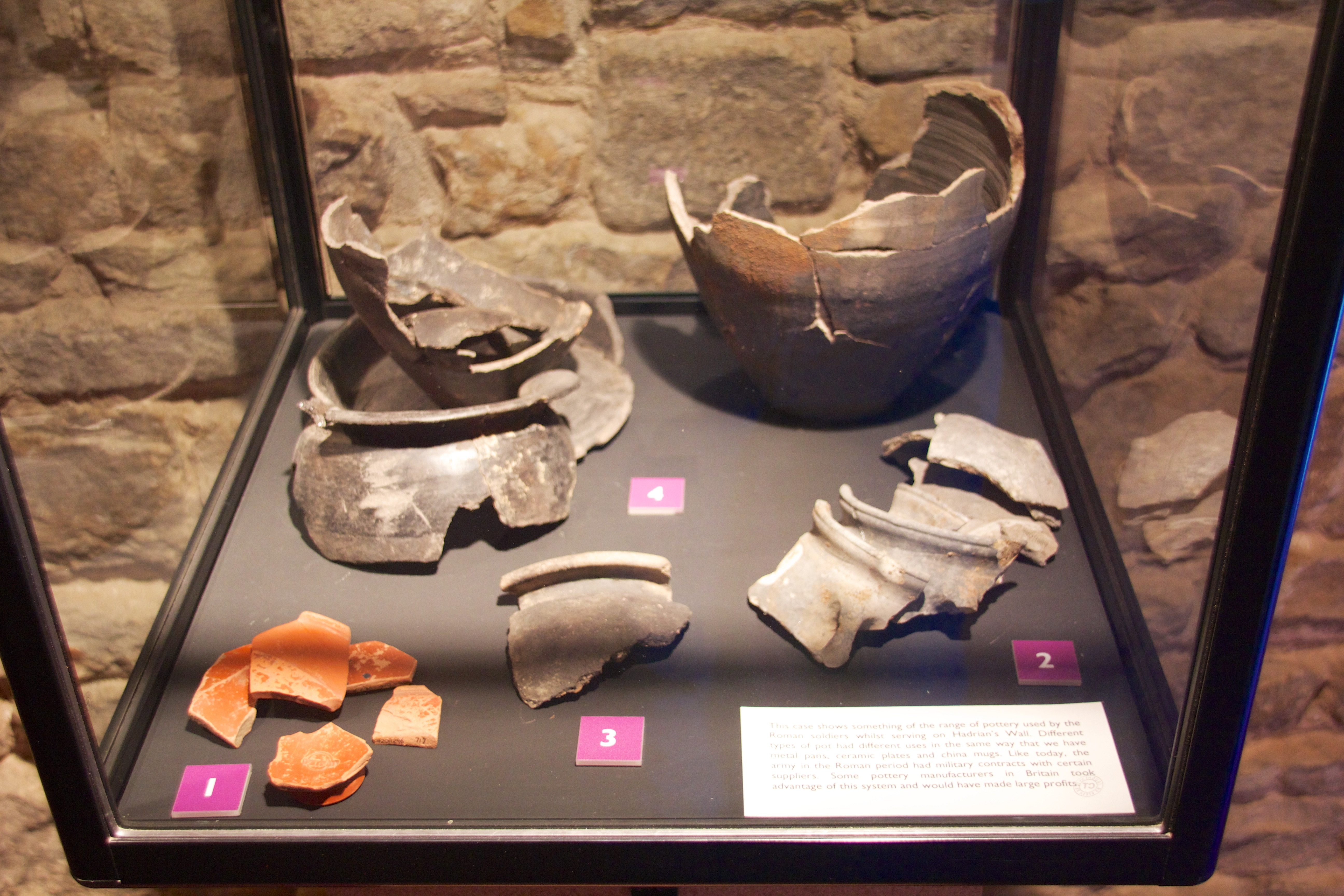 Birdoswald roman fort on Hadrian's Wall. "This case shows something of the range of pottery used by the Roman soldiers whilst serving on Hadrian's Wall. Different types of pot had different uses in the same way that we have metal pans, ceramic plates and china mugs. Like today, the army in the Roman period had military contracts with certain suppliers. Some pottery manufacturers in Britain took advantage of this system and would have made large profits."